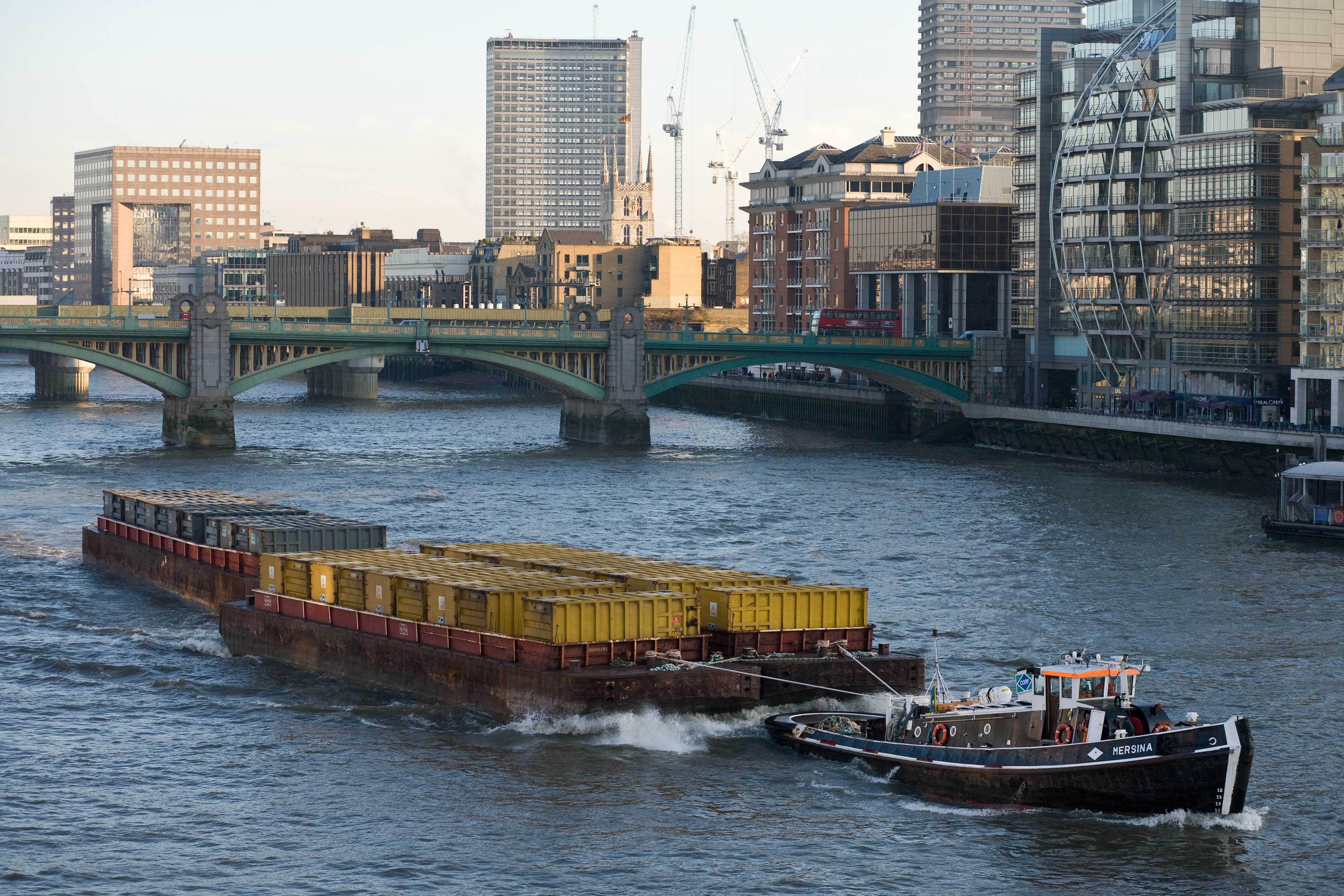 A tugboat pulling three barges upstream on the River Thames in central London, England.